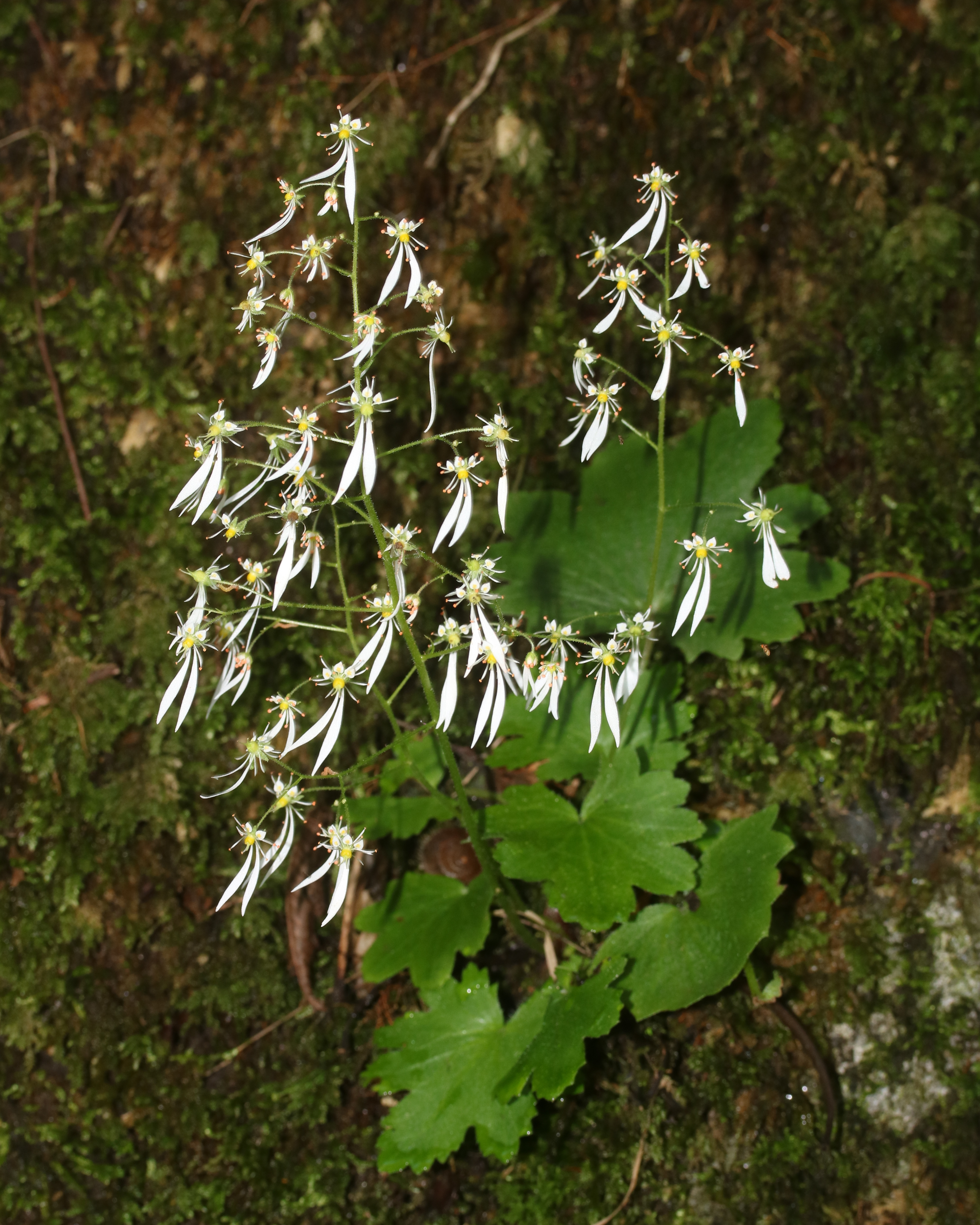 Saxifraga cortusifolia in Suzuka Mountaiins, Inabe, Mie prefecture, Japan.